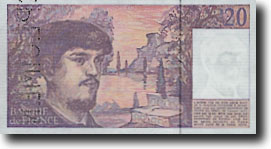 20 francs